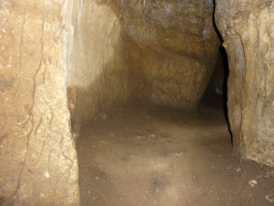 "Mäanderhöhle" is a cave (#2871/14) in Lower Austria, near Kirchberg am Wechsel